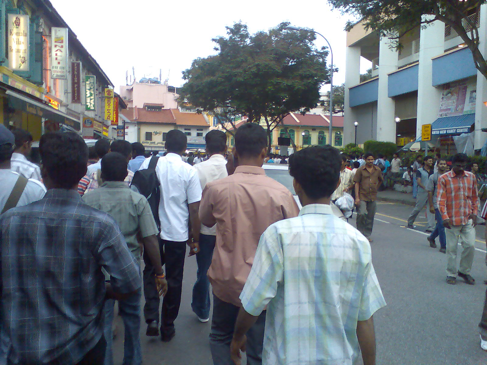 Crowded busy street of Little India